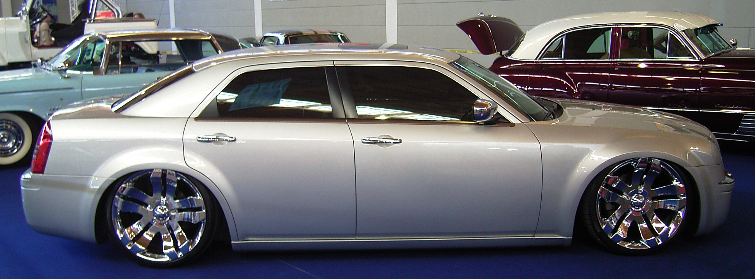 Chrysler 300C